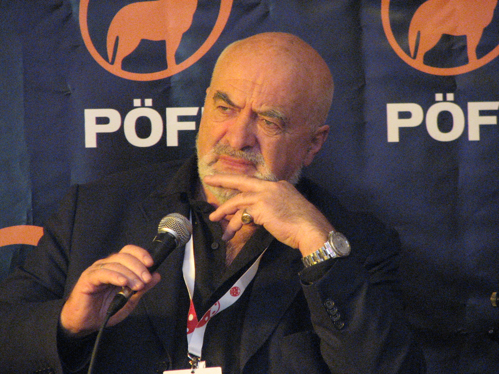 Terje Kristiansen performing in Tallinn Black Nights Film Festival 2010.